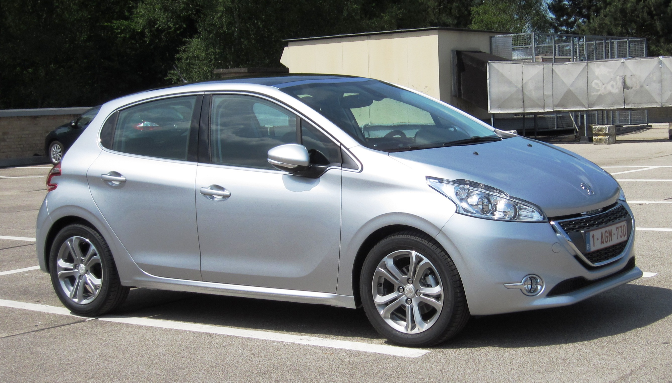 Peugeot 208 5-door Brugge (Dak, Carrefour Market Sint-Kruis, Brugge)